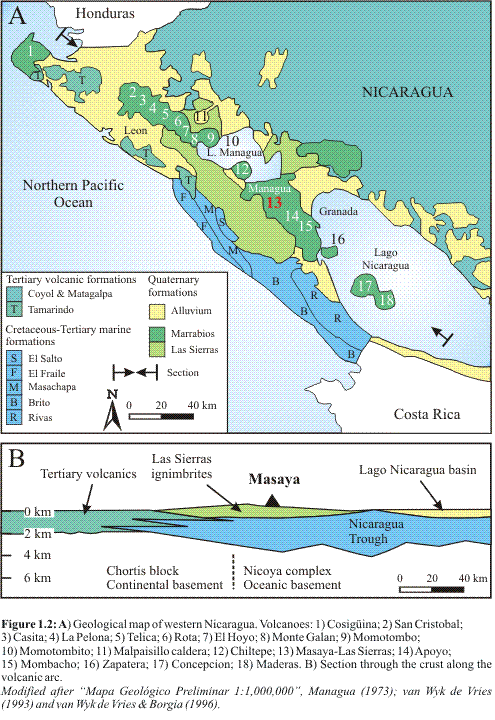 Geology of Western Nicaragua